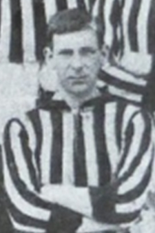 Bert Powell. Cropped from team postcard 1908.